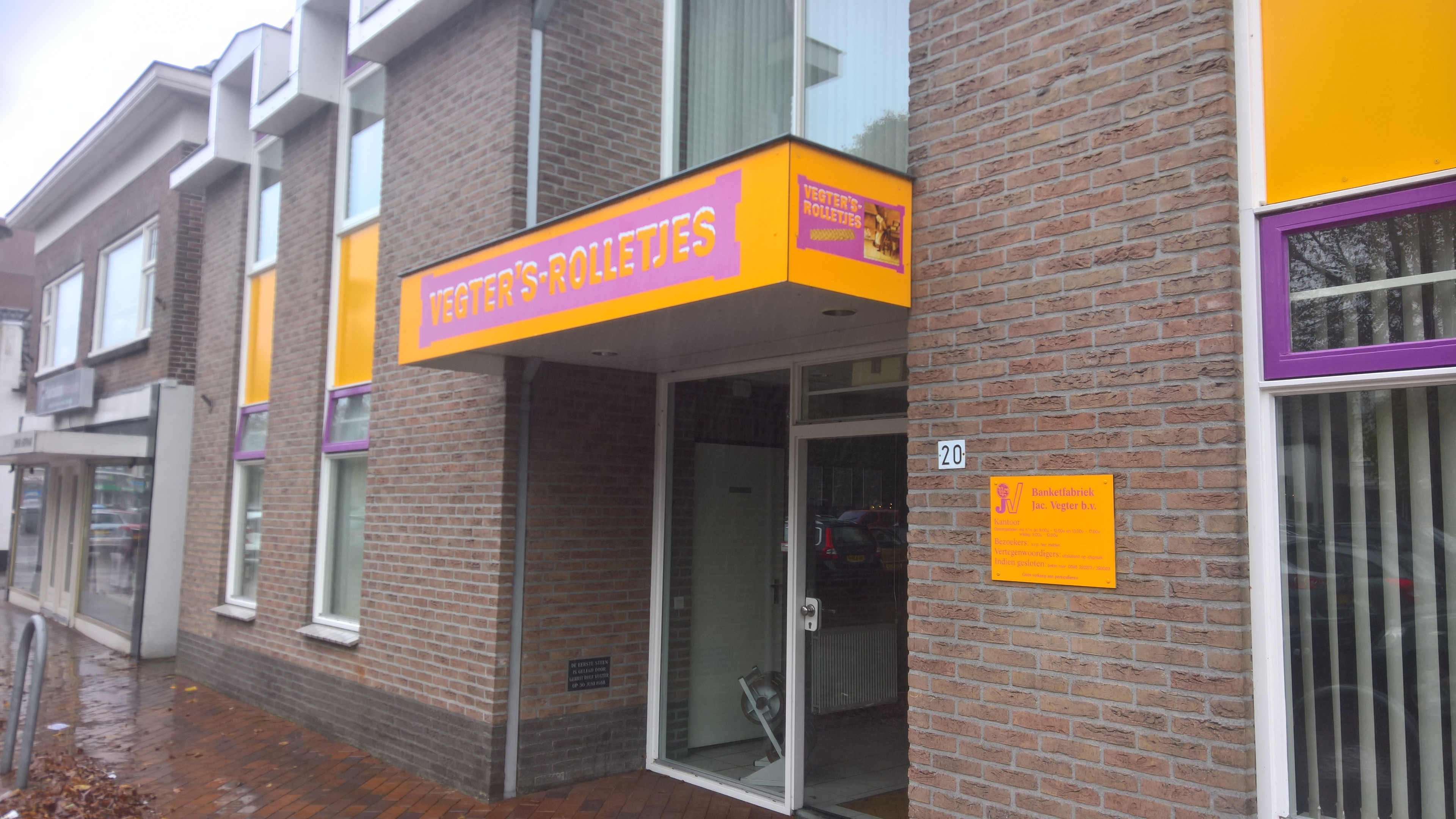 The headquarters of the Vegter's Rolletjes producers and their main factory 🏭.